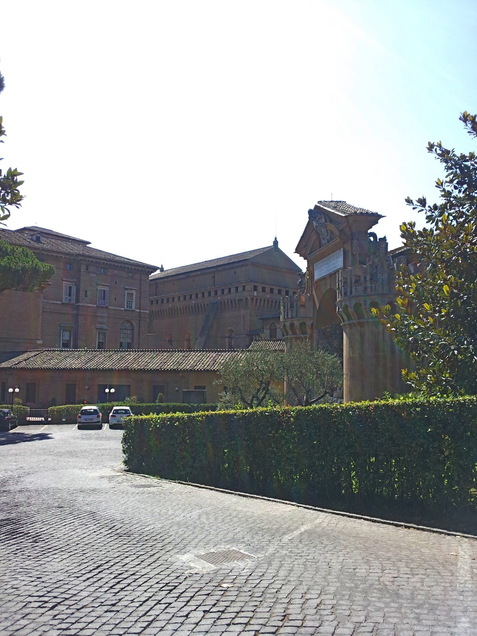 The Sistine Chapel (center) and the Fountain of the Sacrament (right), Vatican City. Photo taken on the Via dell'Aquilone.